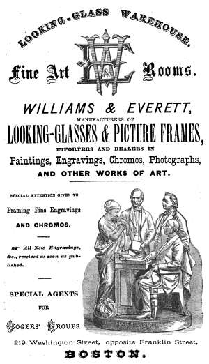 Ad for Williams & Everett, Boston